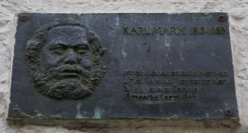 Karl Marx, Bouillonstraat, Maastricht, The Netherlands. Unknown artist. 1983